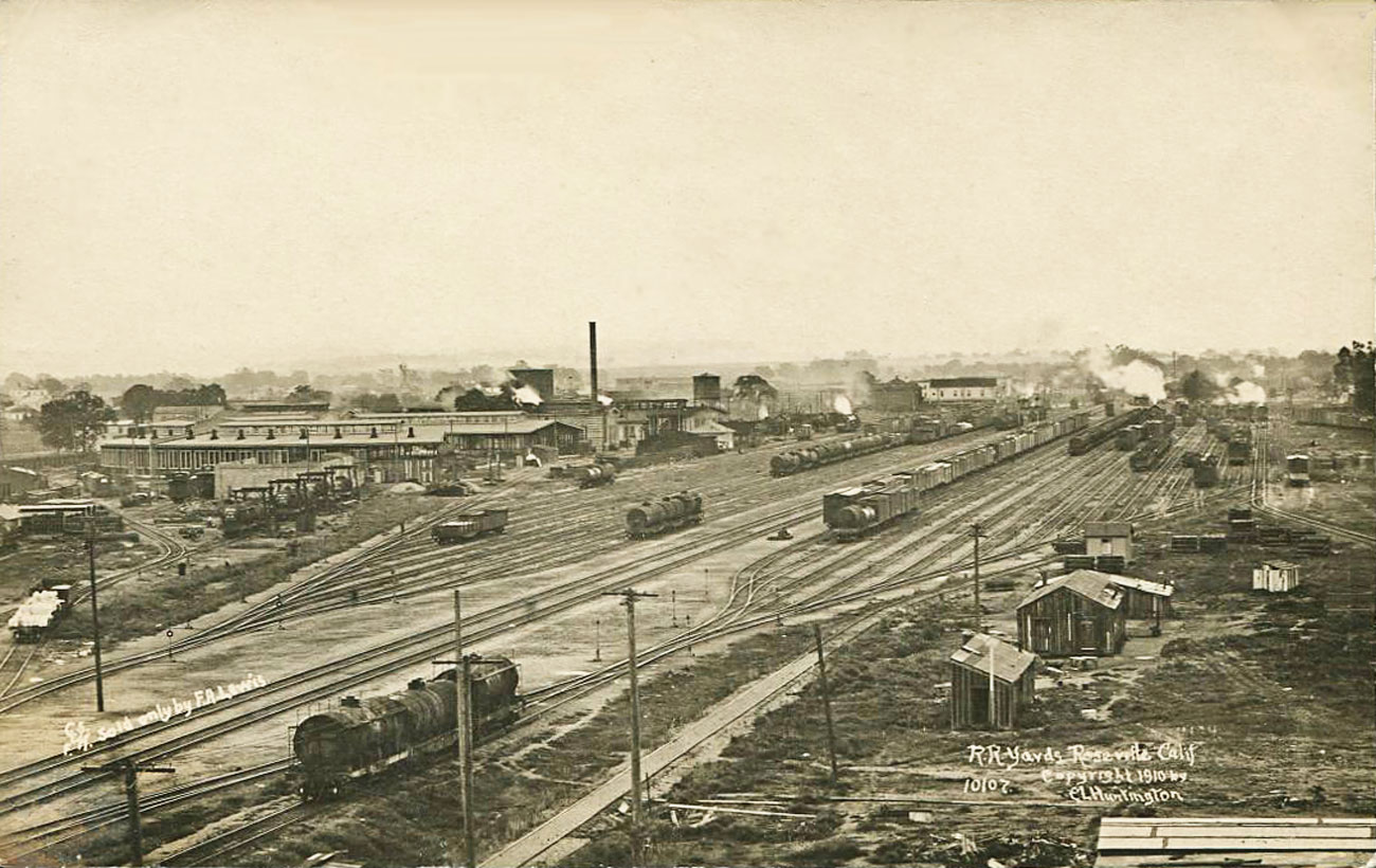 Southern Pacific Roseville Yards and Round House, Roseville, California